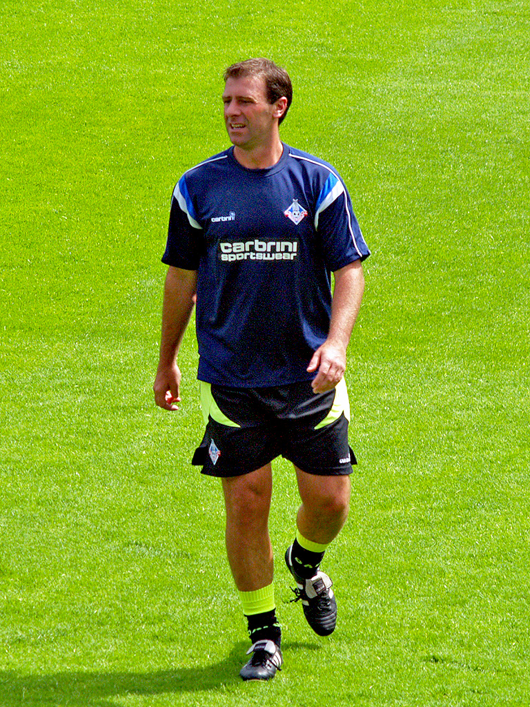 Oldham Athletic AFC defender Sean Gregan during the warm up at Gigg Lane, home of Bury Football Club prior to the Bury vs. Oldham Athletic friendly game. Saturday 18th July 2009